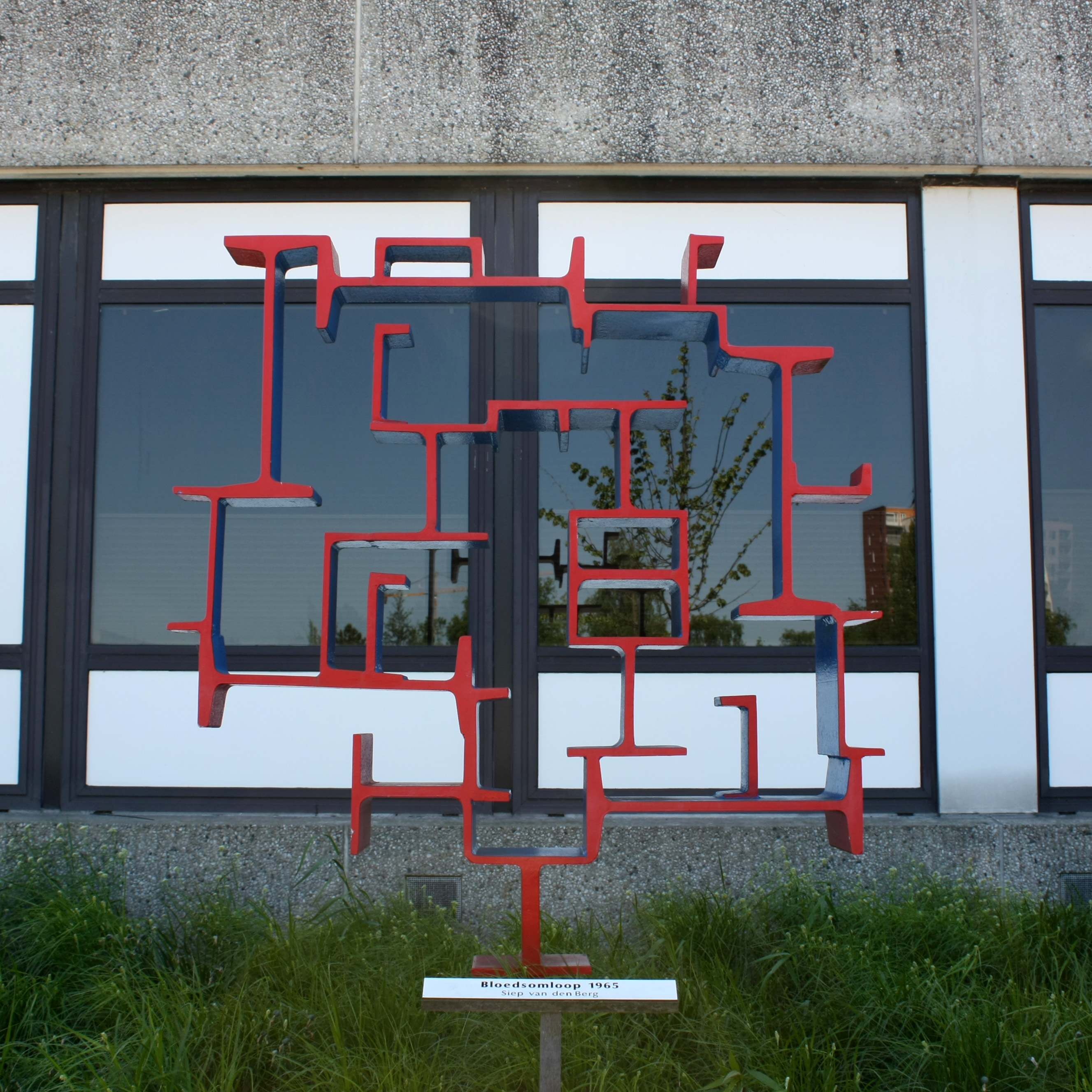 "Blood circulation" by Siep van den Berg in Groningen, the Netherlands